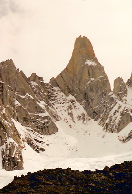 Aguja Saint Exupery, in the middle between Aguja de la S (L) and Aguja Rafael Juarez (R), Jan 20, 2001. Cropped to show only Aguja Rafael Juarez